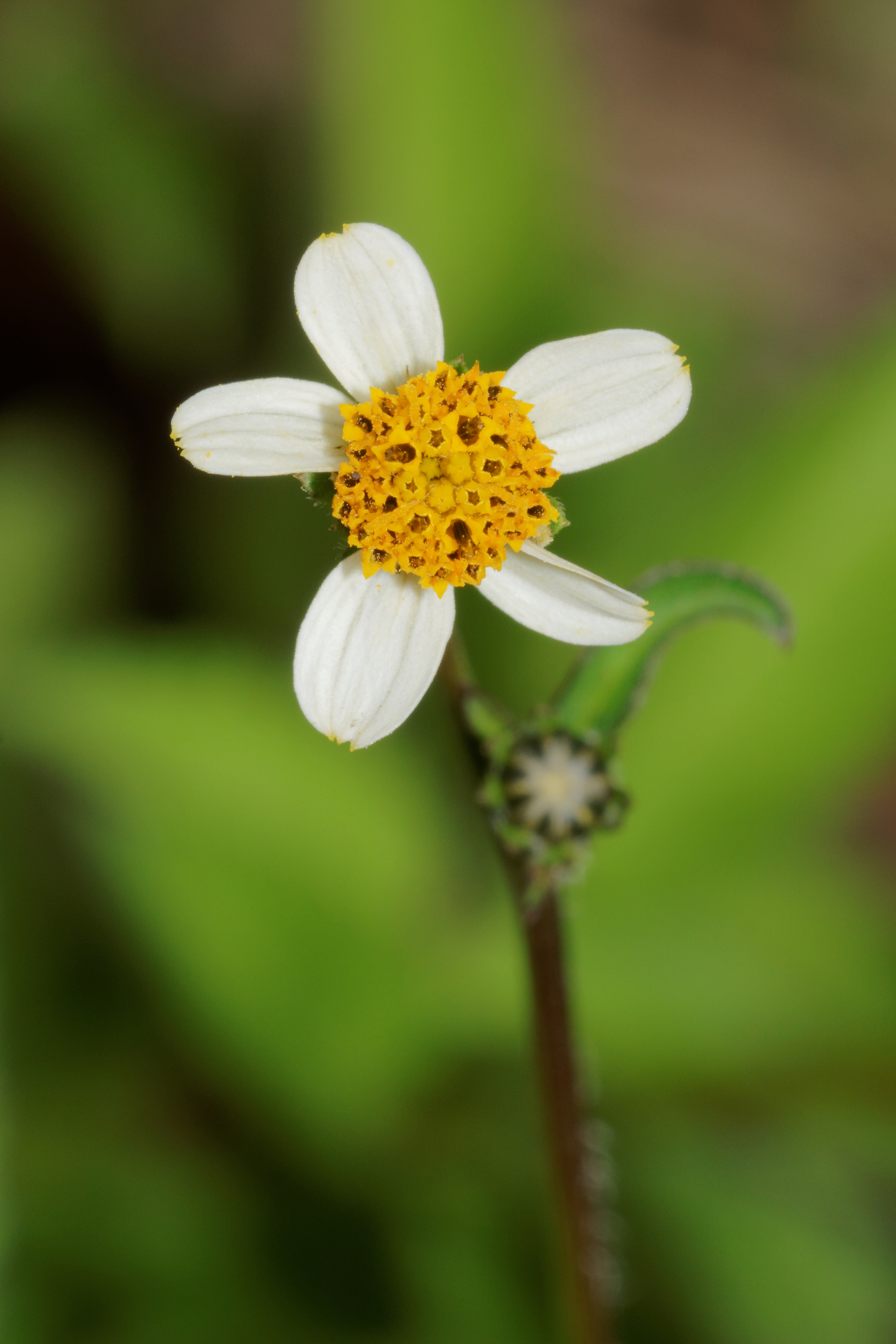 Bidens pilosa, Beggar Tick, Spanish needle, is an annual in Asteraceae family. It is native to the Americas. In India it can be seen up to an altitude of 2500 m.